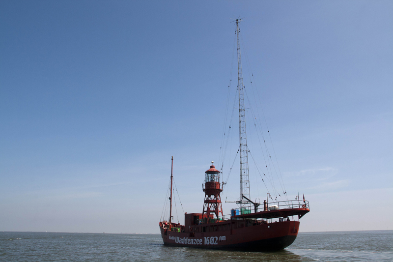 The Jenni Baynton, radioship used by Radio Waddenzee.